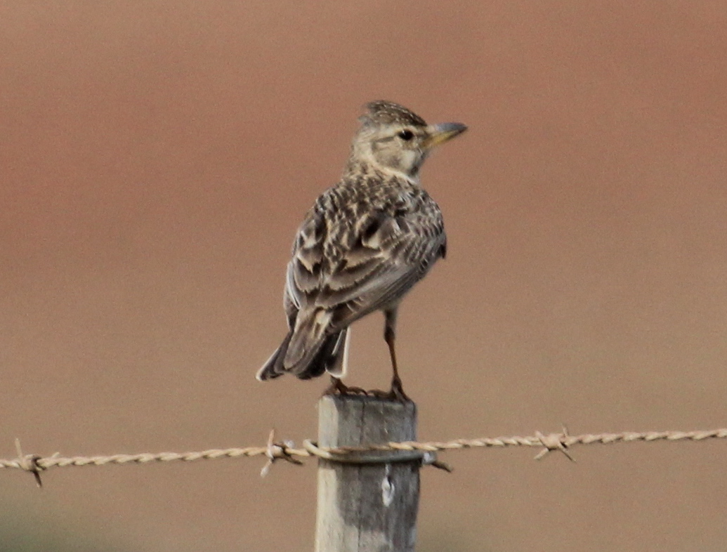 Large-billed lark between Swellendam and De Hoop Nature Reserve, South Africa. AKA Southern thick-billed lark.